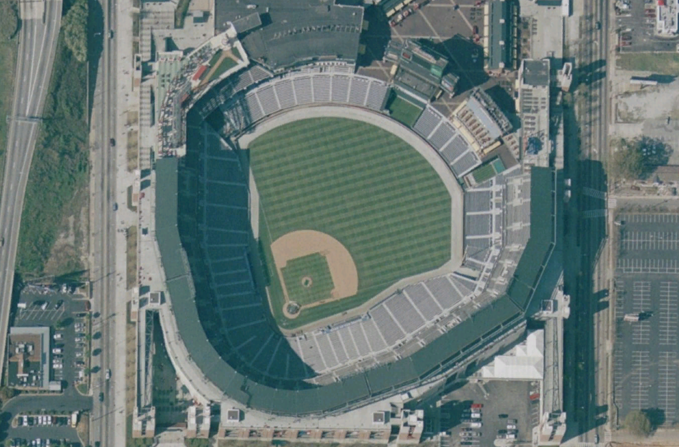 Turner Field satellite view, nasa world wind 1.3.5